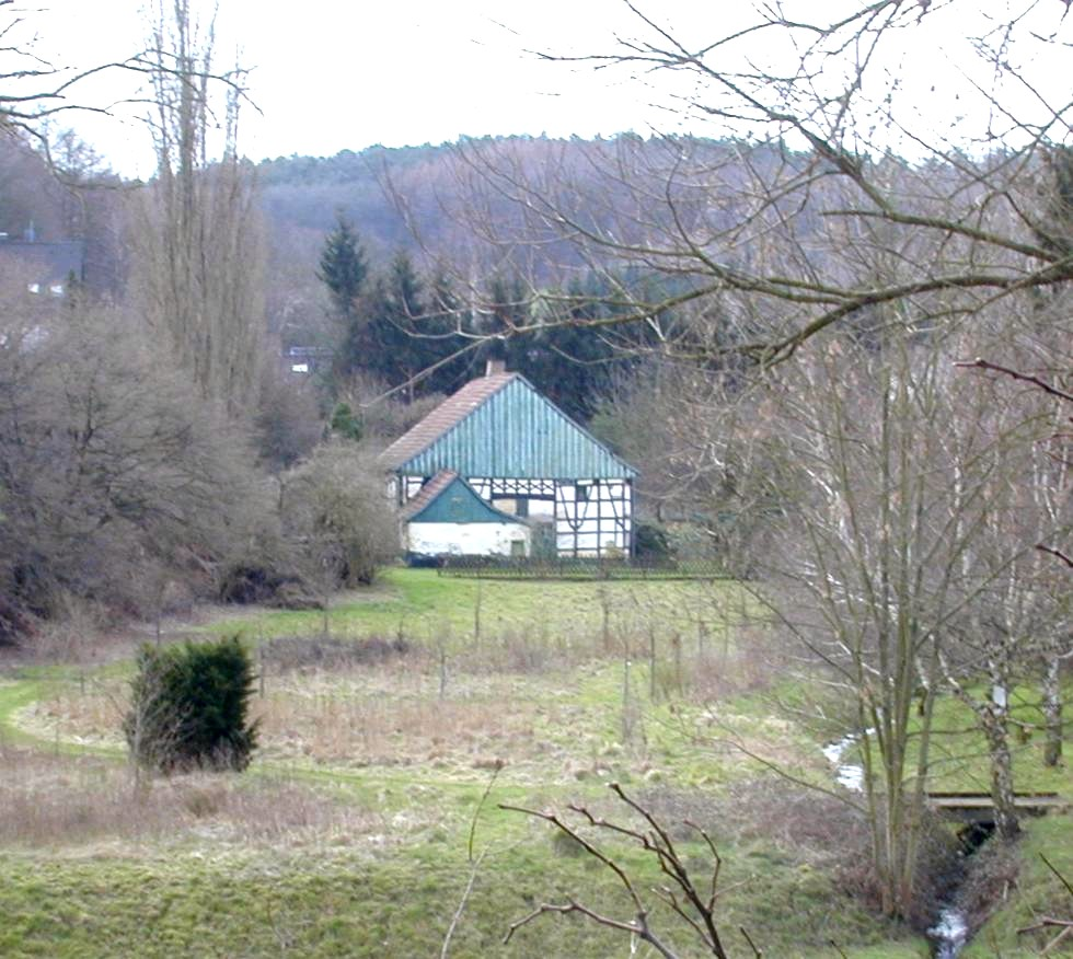 Timber framed house Günnemann-Kotten in Witten, Germany